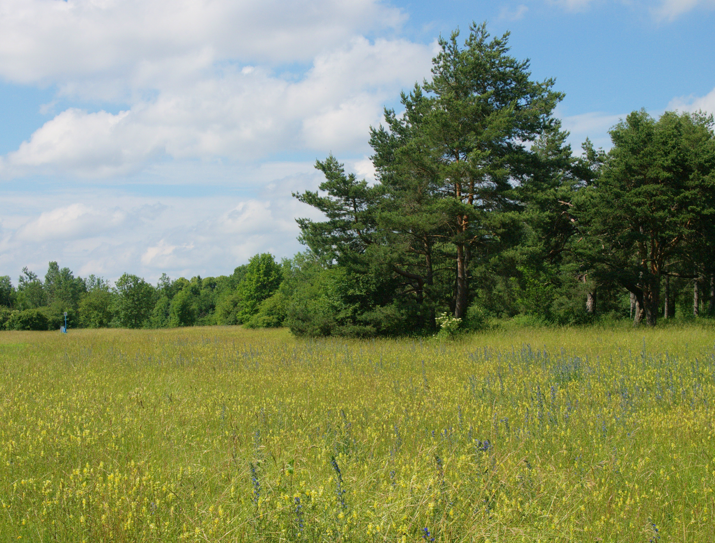 Klapperntopfwiese und Waldkiefer im Hintergrund im Naturschutzgebiet "Dürrenastheide" in Augsburg